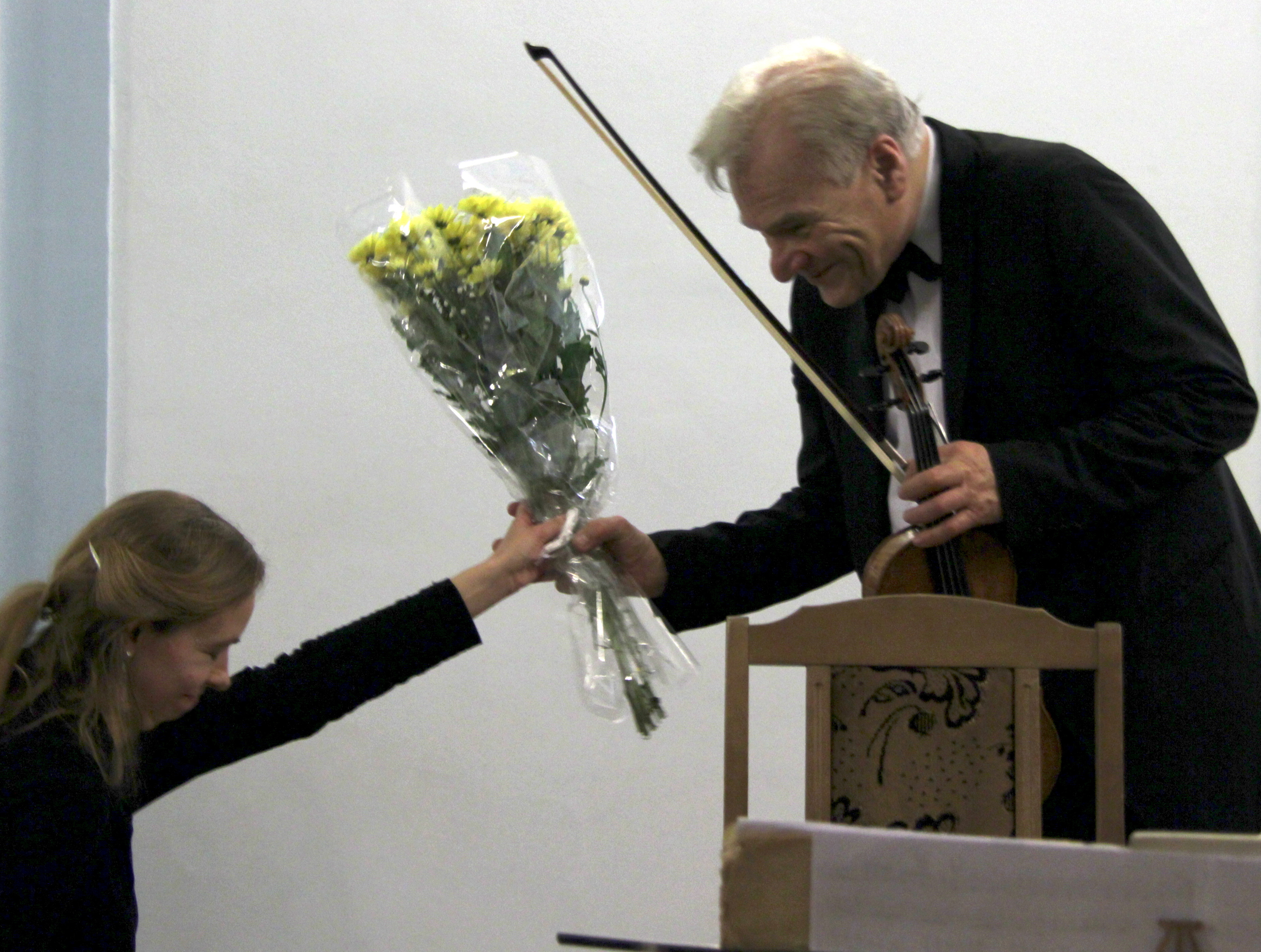 Luz Leskowitz in Moscow, photo by Vokabre, 2012-03-12